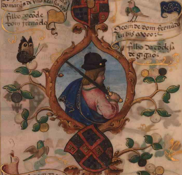 Miniature depicting Fernando de Noronha, 2nd Count of Vila Real (1378-1445), in the 1534 Genealogy of Manuel Pereira, 3rd Count of Feira.